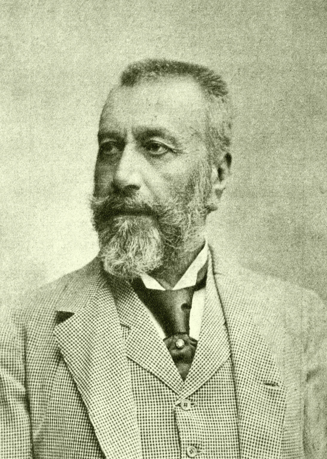 Count (Graf) Johann Nepomuk (Hans) Wilczek (1837 - 1922), Austro-Hungarian sponsor of Polar expeditions and artists.